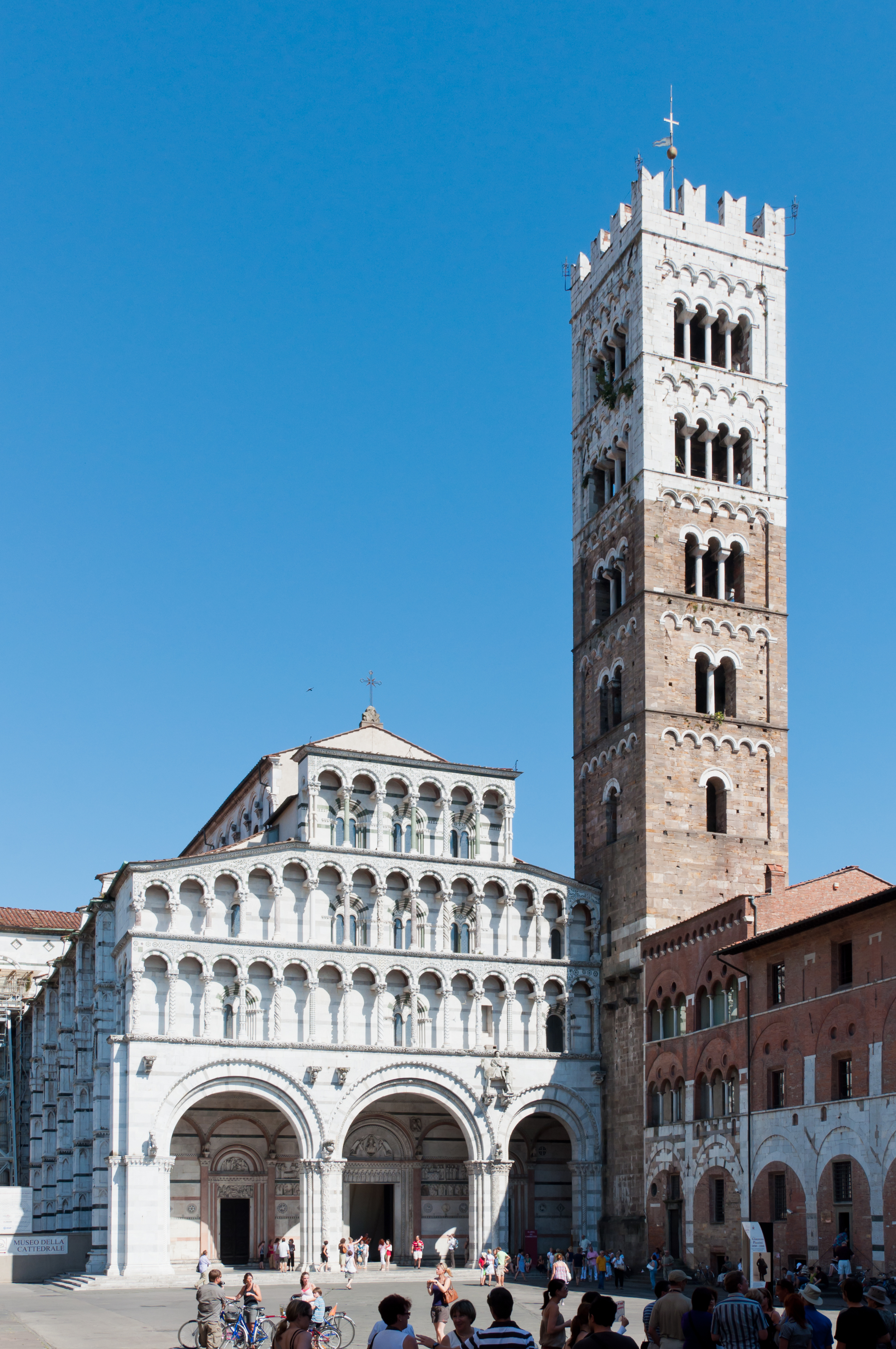 Lucca Cathedral, front view